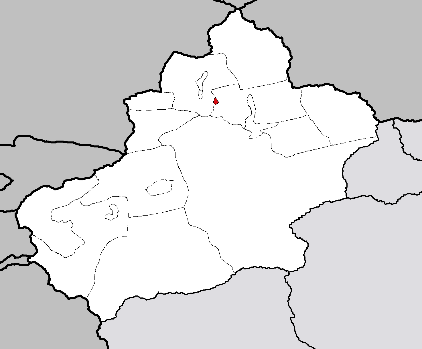 Shihezi sub-prefecture in Xinjiang autonomous region (China)